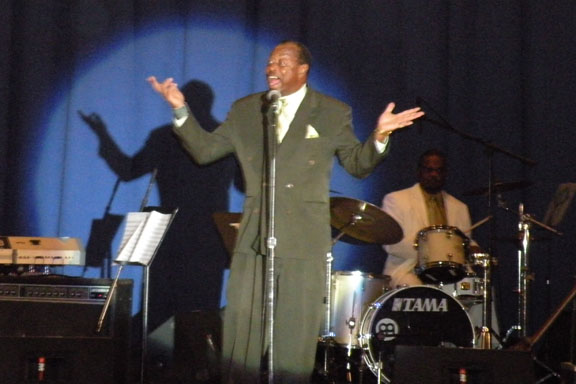 Charles Wright performing at a memorial tribute for the late Tommy Jacquette of the Watts Summer Festival at Ted Watkins Park in the Watts section of Los Angeles on Saturday, 28 Nov 2009.